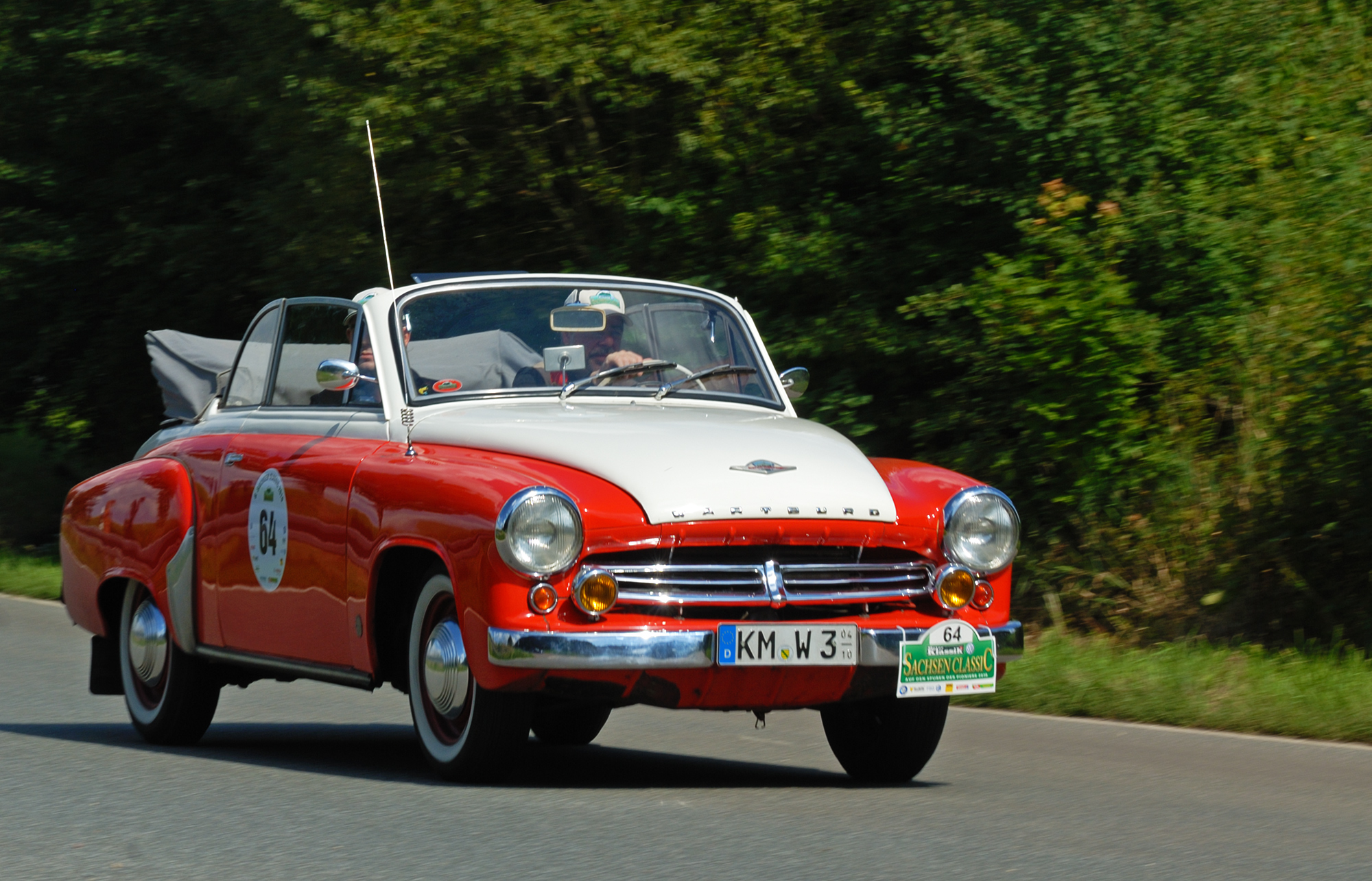 Wartburg 311/2 from 1956 during the Saxony Classic Rallye 2010